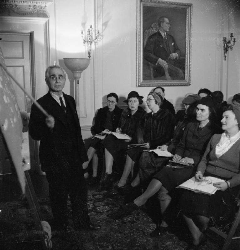 Britons Learn Turkish- Adult Education in London, 1943 Bay (Mister) Ali Rıza Şencan, Secretary of the Halkevi, points to the blackboard whilst teaching the class about the three different personal pronoun suffixes. The front row of the class listens intently to him. A portrait of Kemal Ataturk can be seen on the wall behind them. Turkish language classes are held here twice a week.